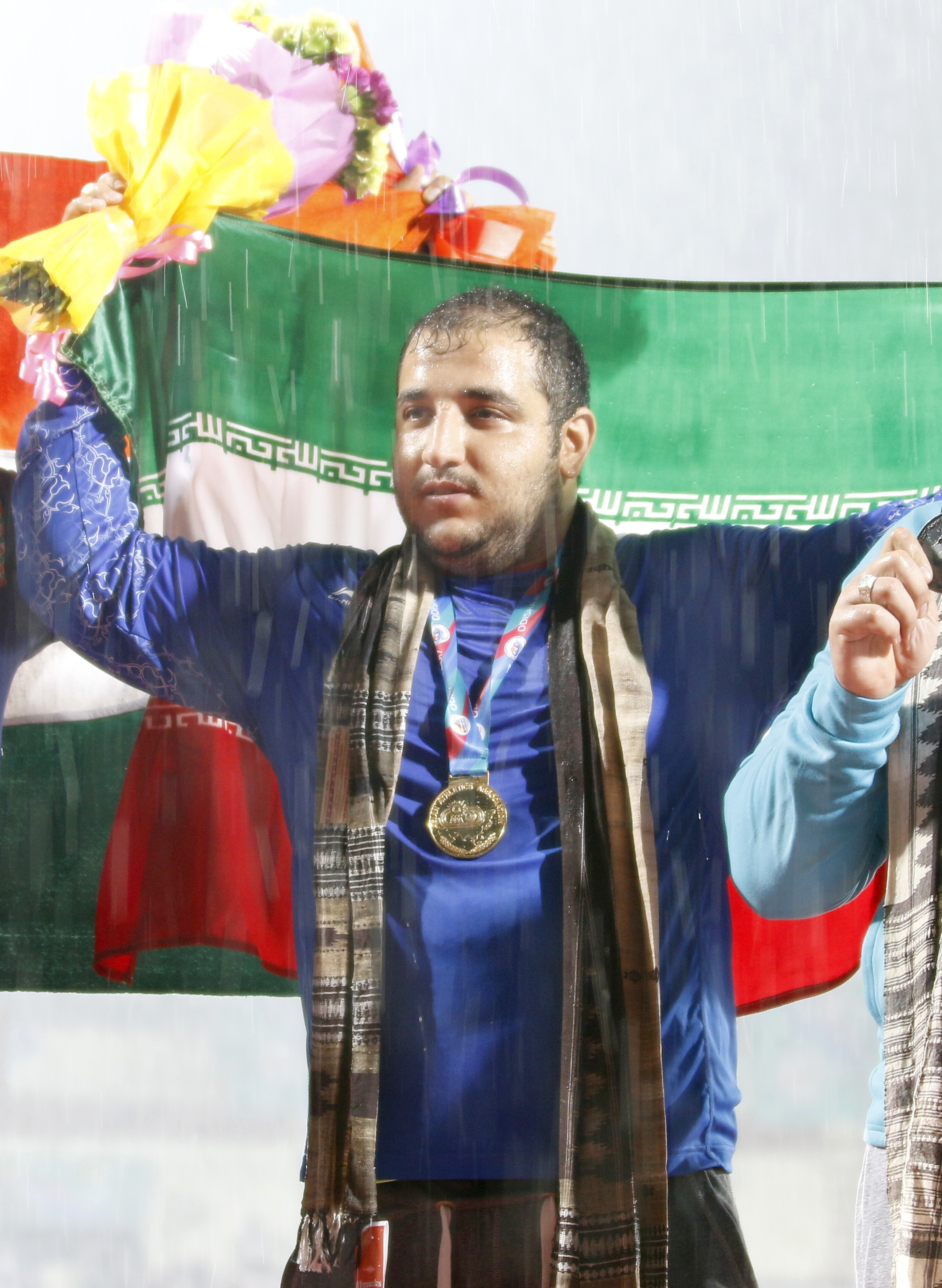 Athletes during 22nd Asian Athletics Championships in Bhubaneswar.